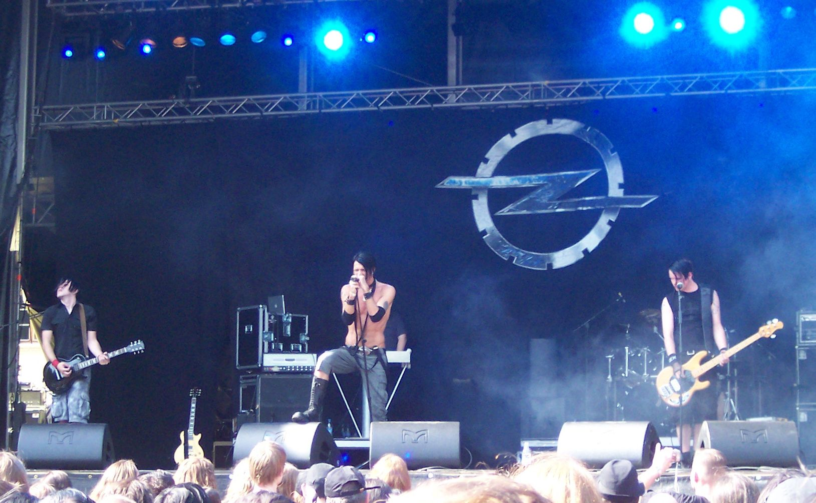 "Zeromancer" playing at Zita Rock festival 2008